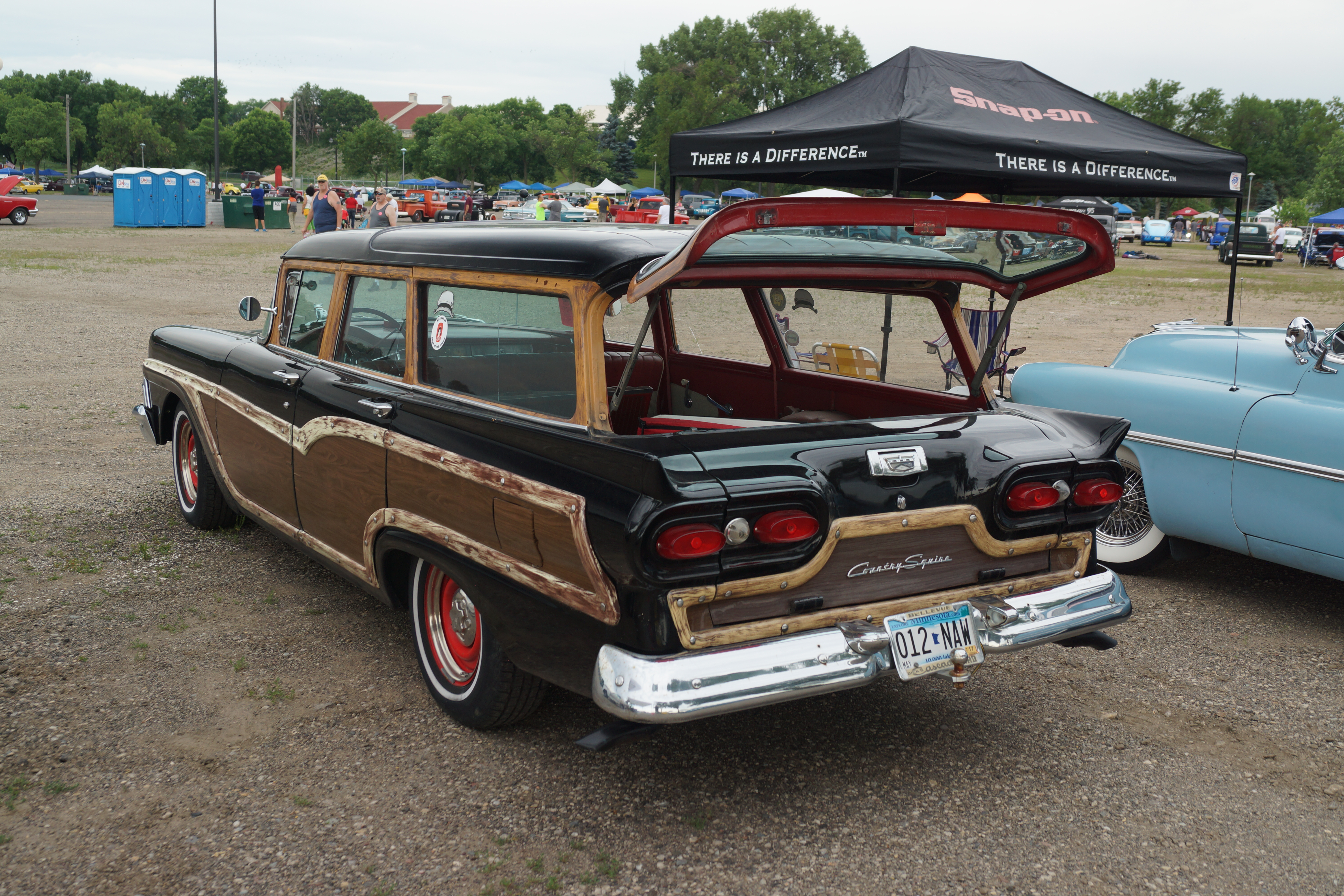 MSRA “BACK TO THE 50′s” 43nd Annual Car Show June 17-19, 2016 State Fairgrounds St. Paul Minnesota Click here for more car pictures at my Flickr site.